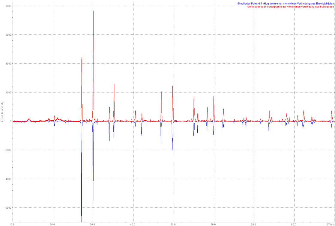 Simulated and measured diffractogramm of a monoclinic compound